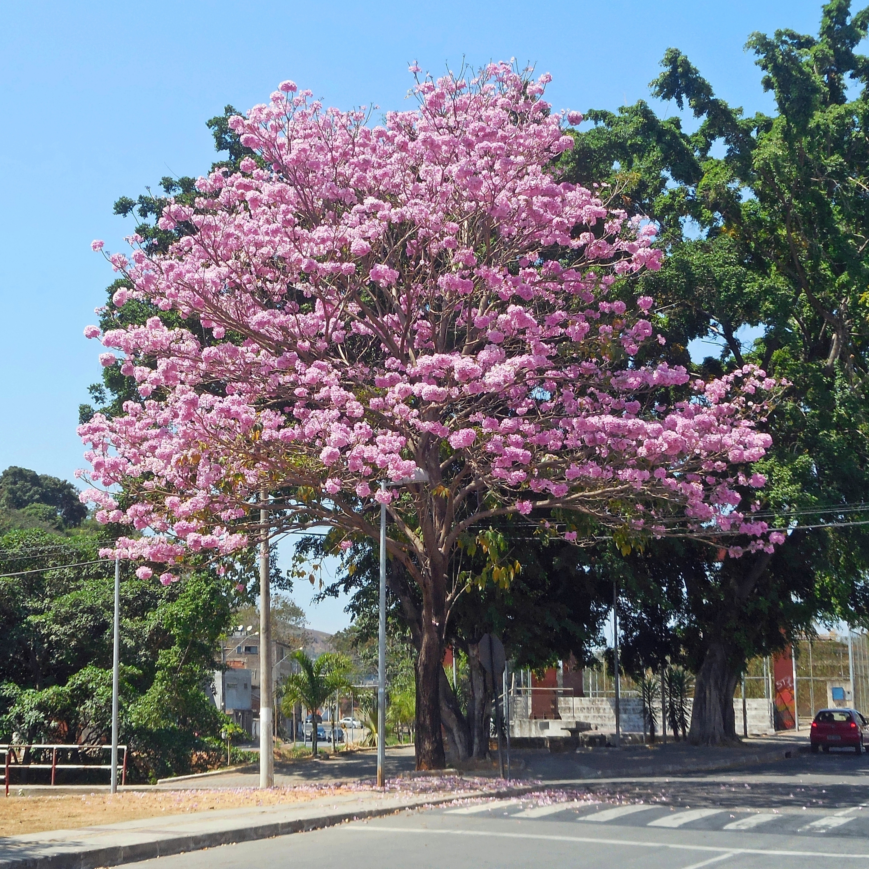 Flowers of ipê-roxo (Handroanthus impetiginosus) in the Julita Pires Bretas Avenue, Santa Helena neighborhood, in Coronel Fabriciano, Minas Gerais, Brazil.